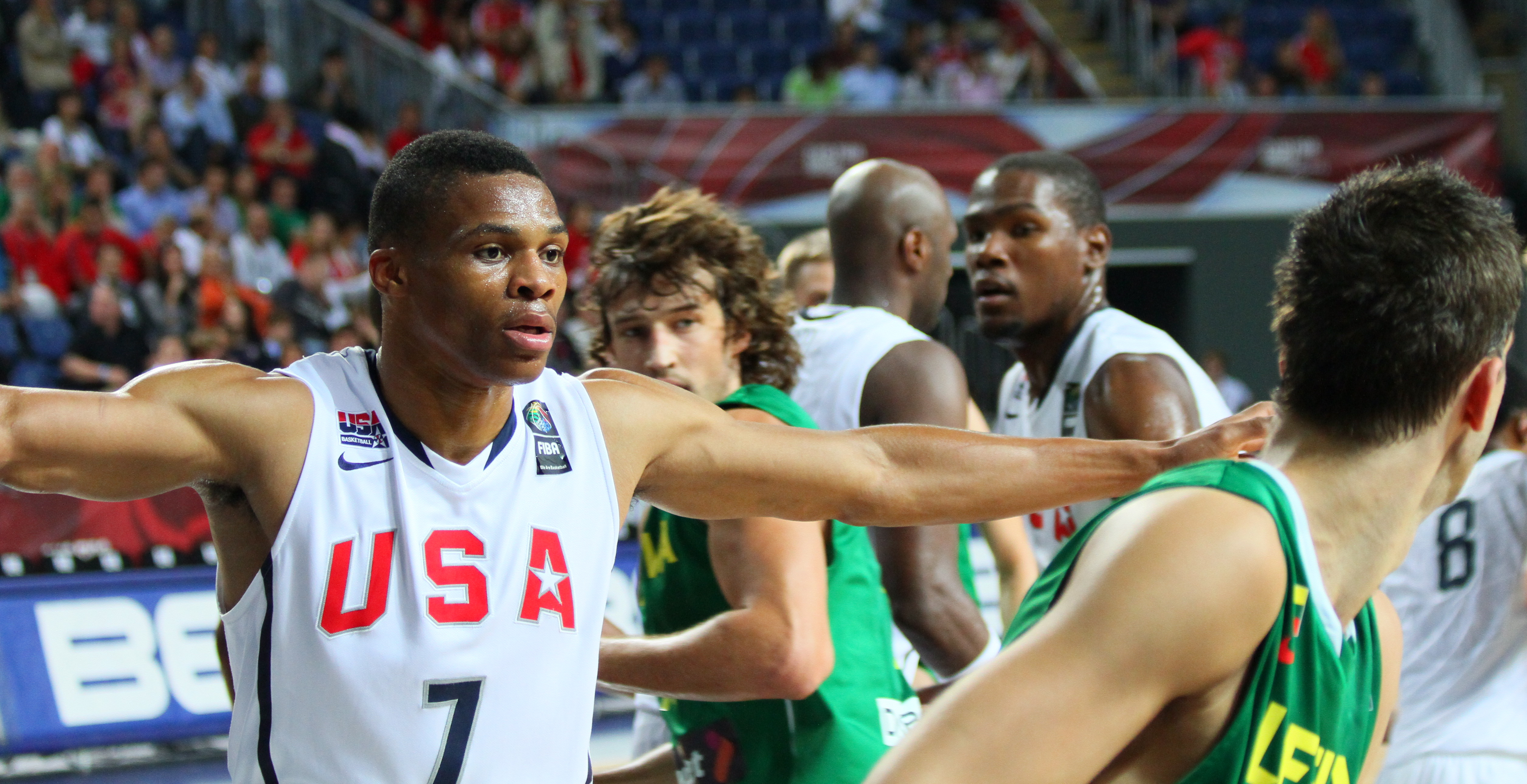 Lithuania-United States game during 2010 FIBA World Championship.